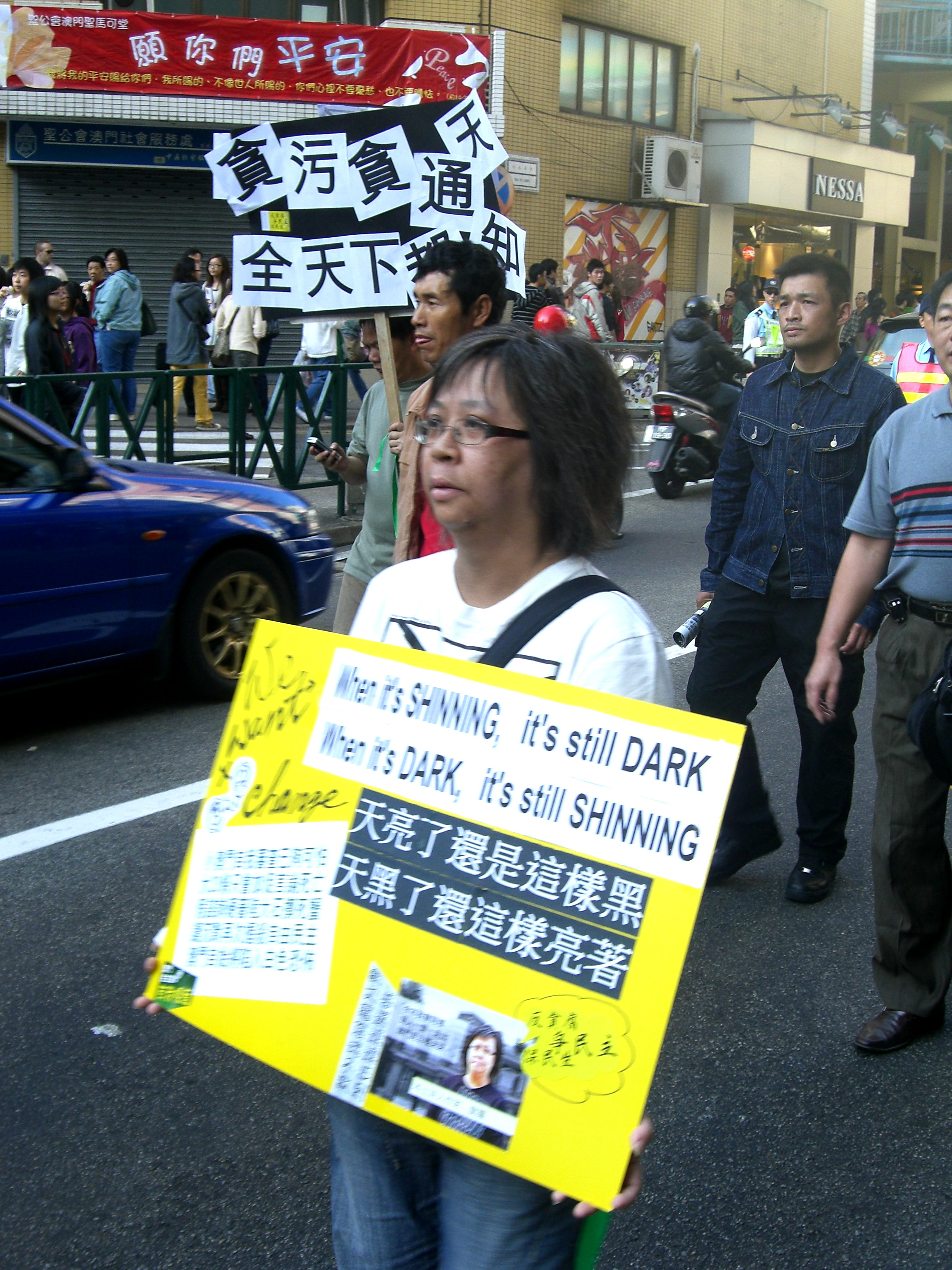 Cheang Mio San, Virginia